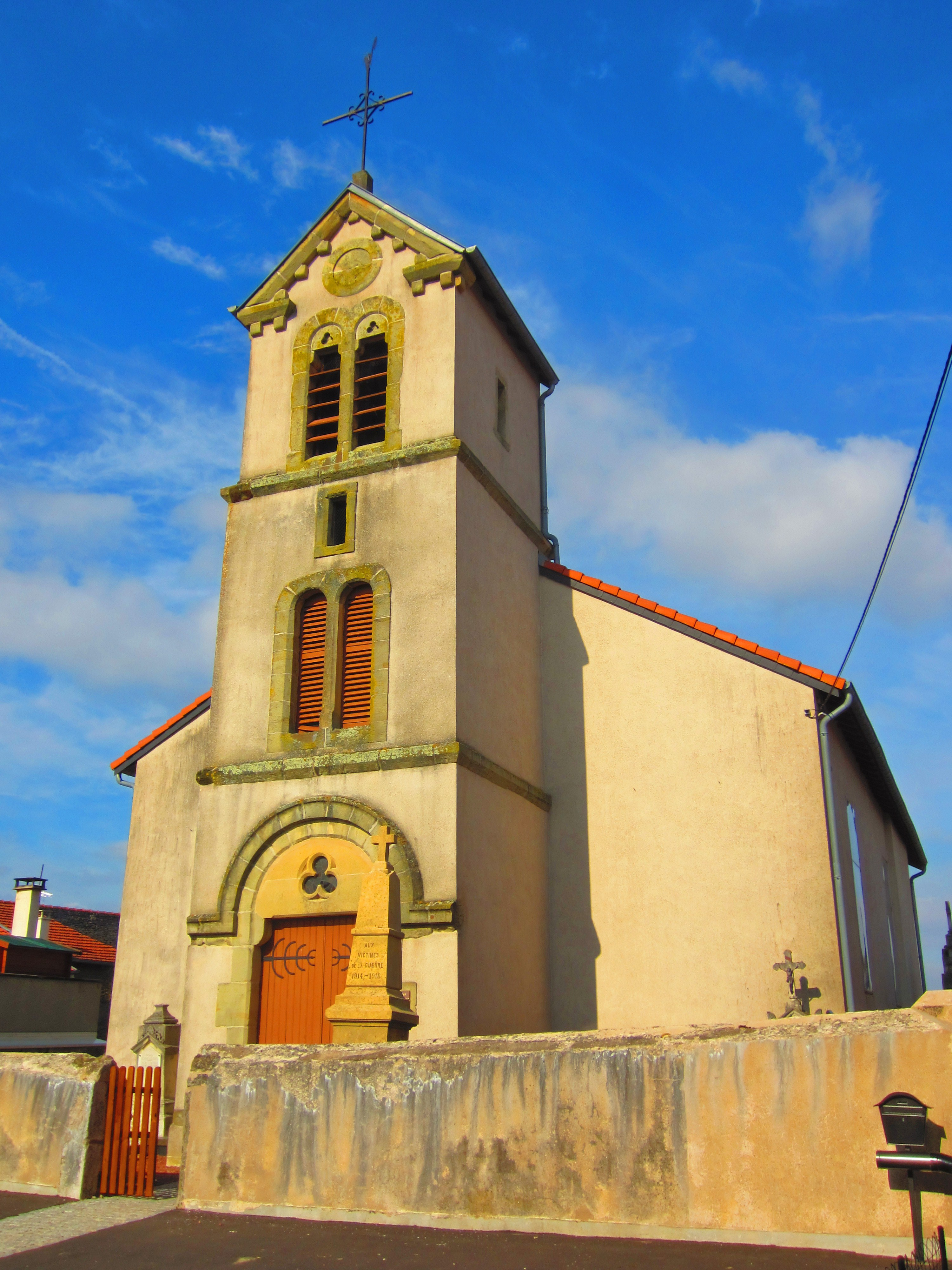 Macker Helstroff church